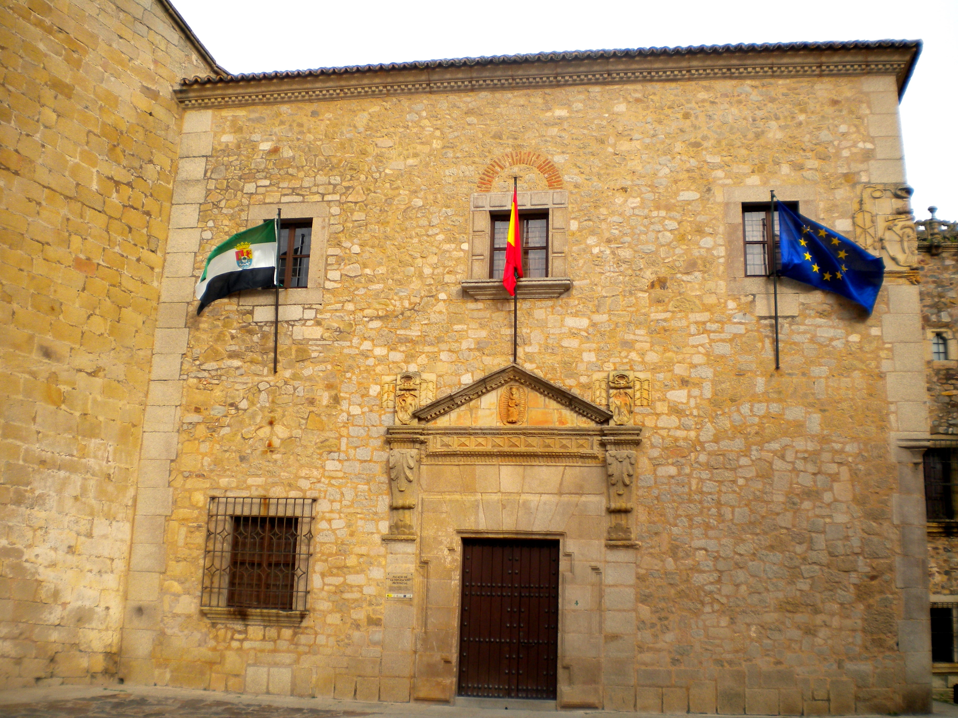 Palace of the County council of Cáceres (Spain)